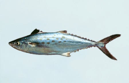 Spanish mackerel have yellow or olive green oval spots across their bodies.